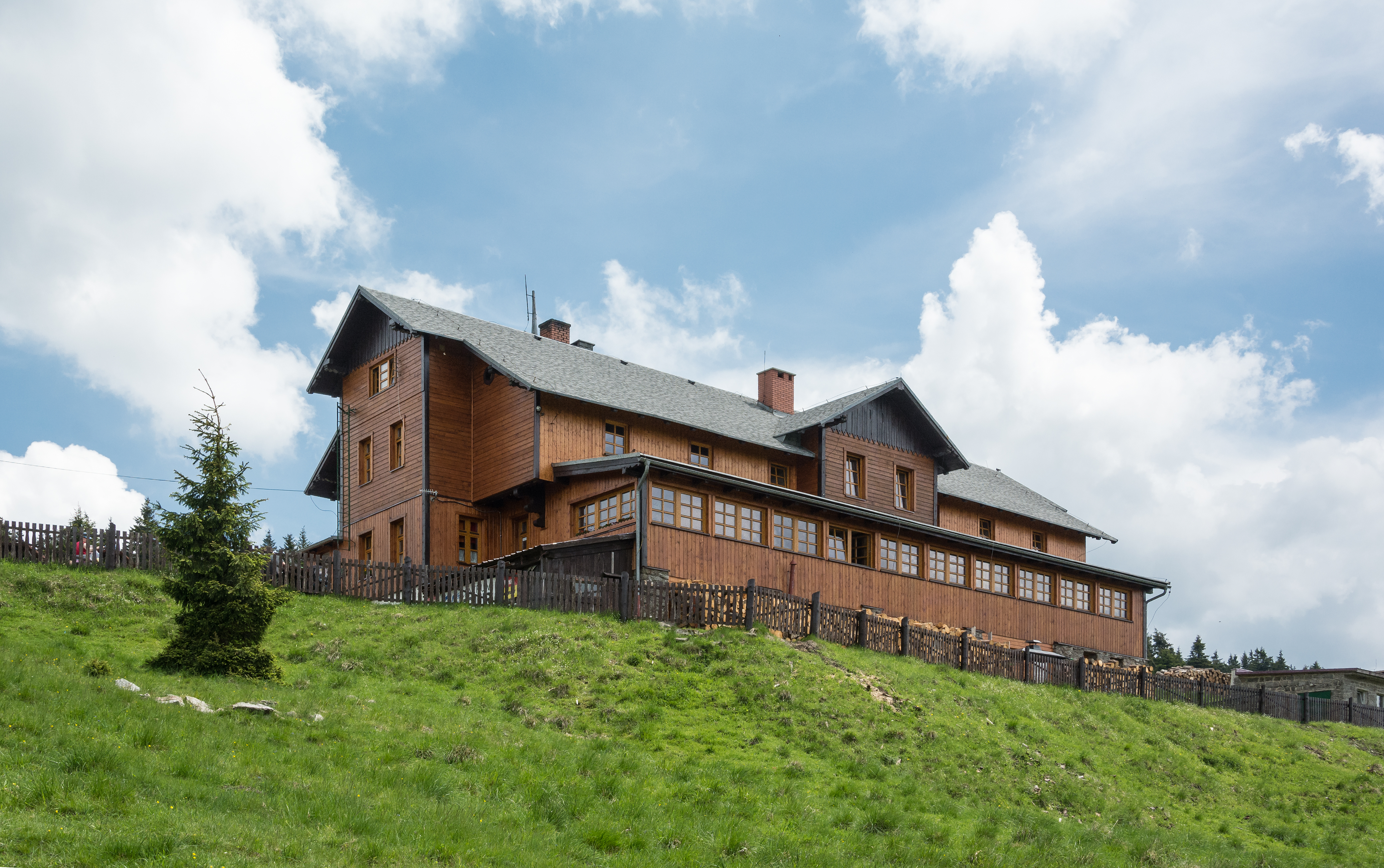 Na Śnieżniku hostel